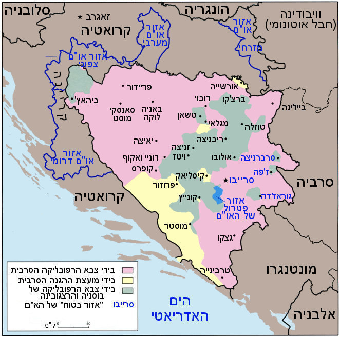 Bosnia areas of control Sep 94